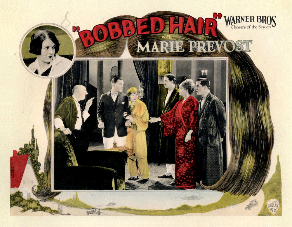 Lobby card for the American comedy film Bobbed Hair (1925). There are no copyright marks on the item.